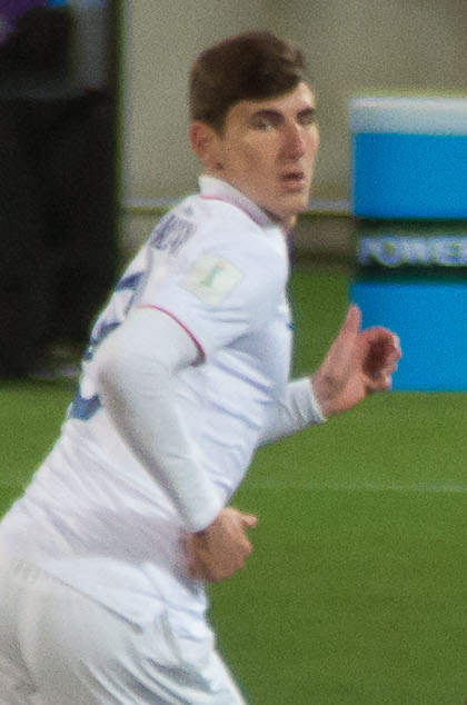 USA-Columbia, FIFA U20 World Cup